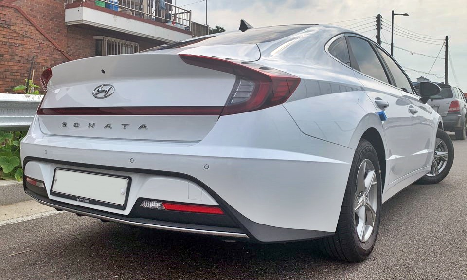 Hyundai Sonata (DN8)